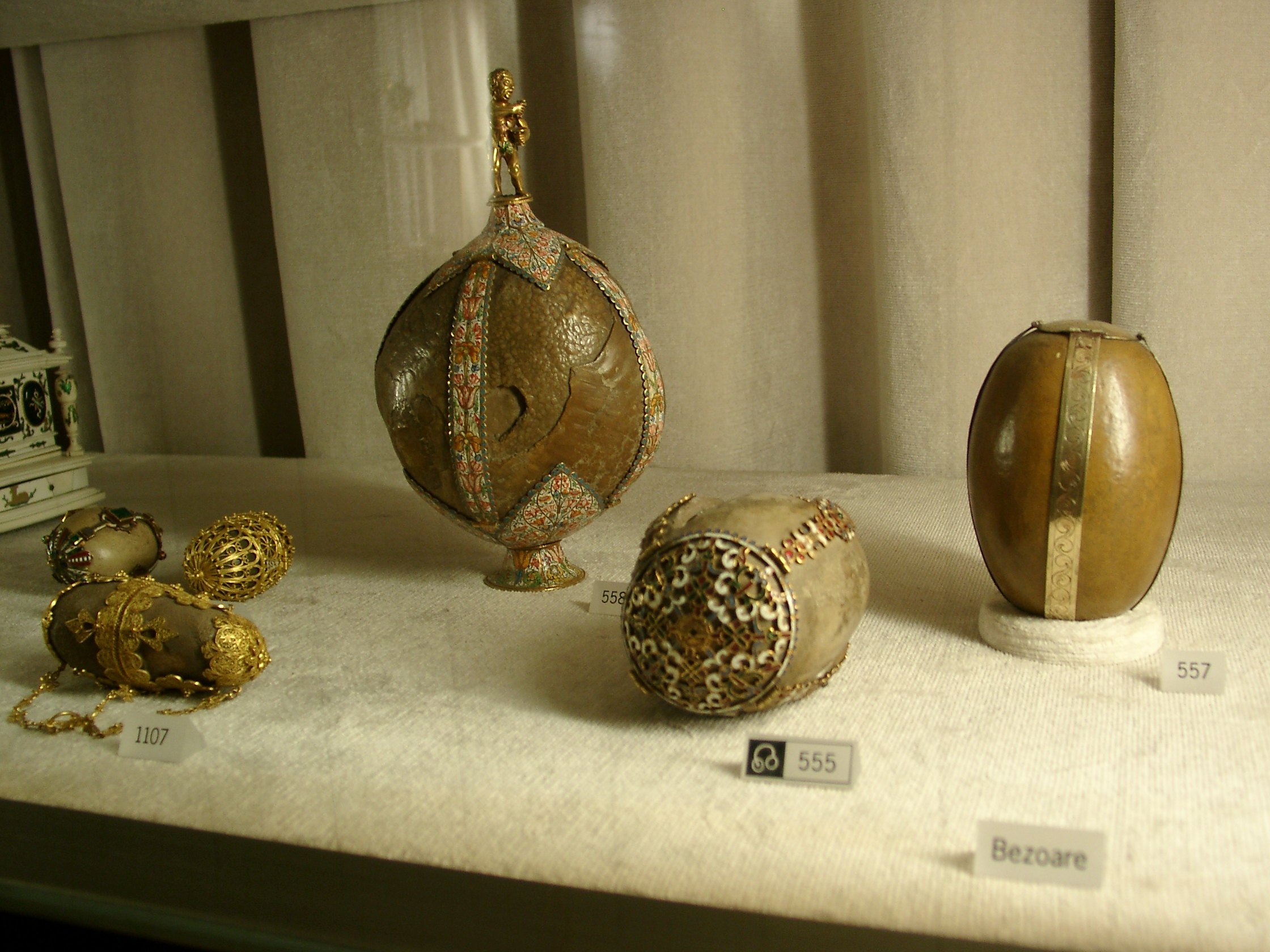 Several Bezoar stones from The treasury chamber of the Wittelsbacher located in the Munich Residenz